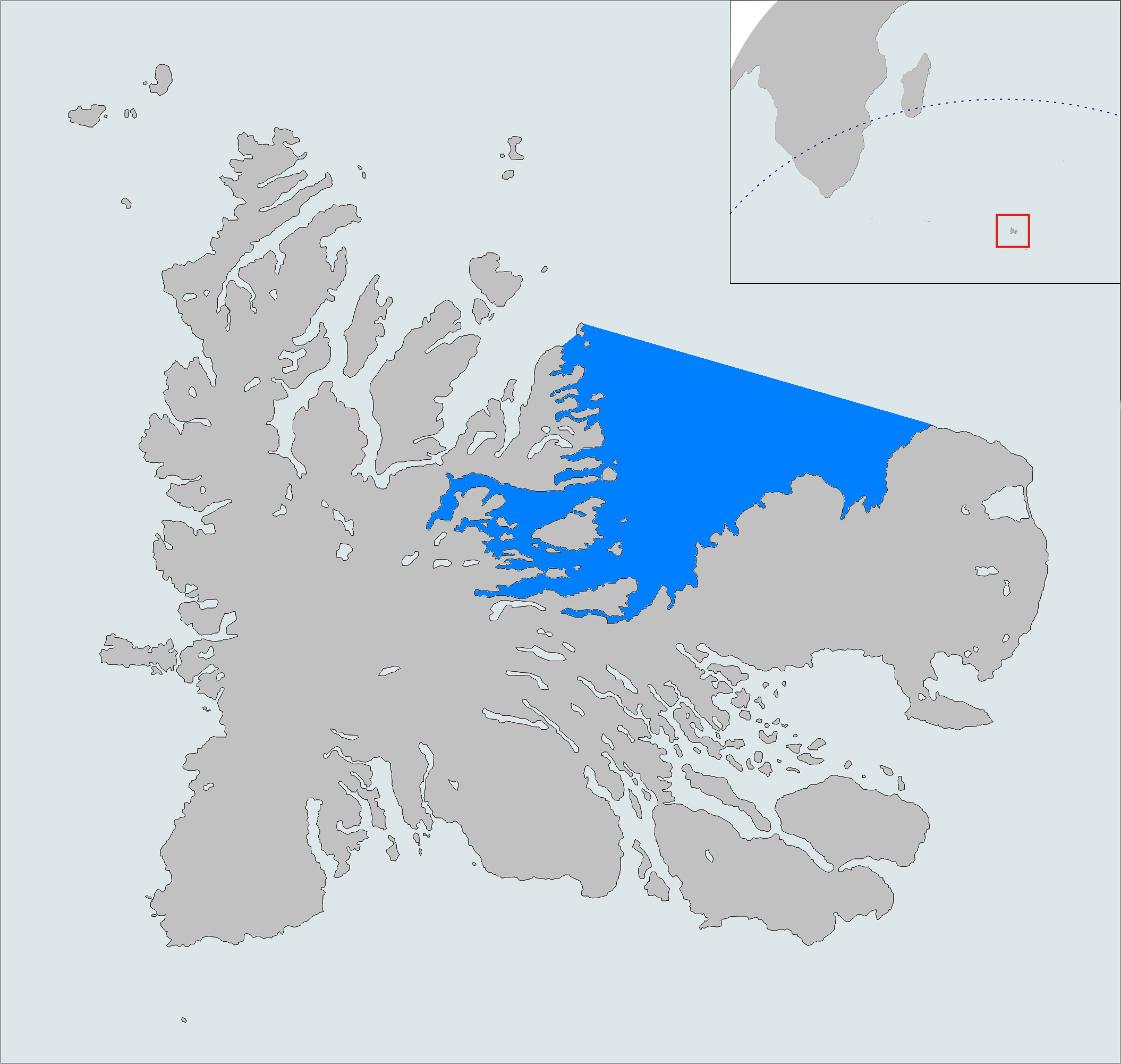 location of Golfe des baleiniers, Kerguelen Islands